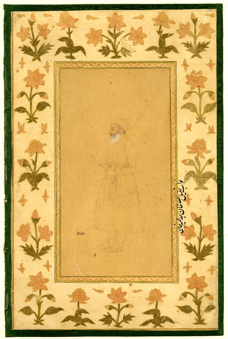 Album leaf, removed from album; painting and drawing. Portrait. Khalilullah Khan, with 2 inscriptions. On paper. See 1920,0917,0.13 for description of album.